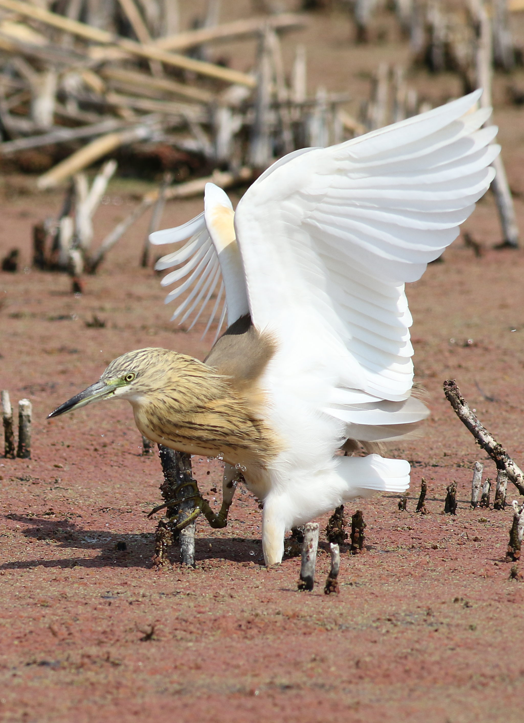 Squacco Heron, Ardeola ralloides at Marievale Nature Reserve, Gauteng, South Africa